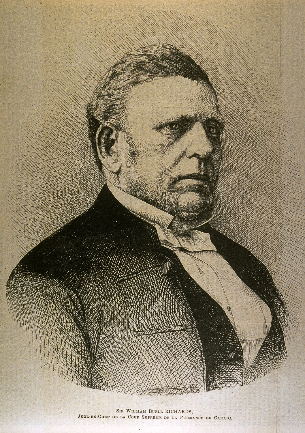 Portrait of William Buell Richards, Puisne Justice of the Supreme Court of Canada, c. 1877.